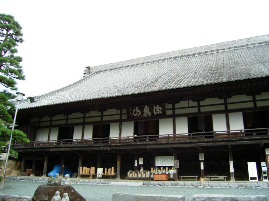 Hokoji temple in Hamamatsu city Shizuoka Japan